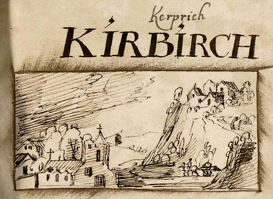 "Kirbirch" (today: Körperich, Verbandsgemeinde Neuenburg, Eifelkreis Bitburg-Prüm) by Jean Bertels, ~1597